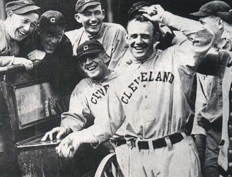 in 1916 publicity photo